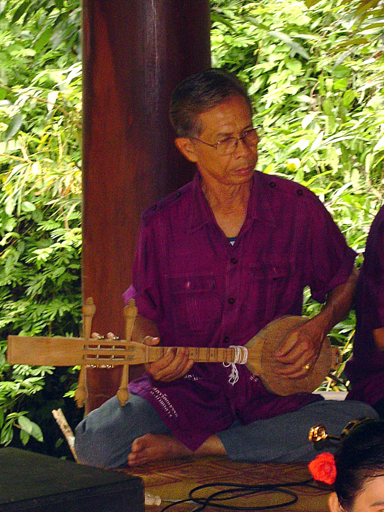 Traditional Laplae folk music. at Wat Kungtapao Local Museum, Ban Khung Taphao, Khung Taphao subdistrict, Mueang Uttaradit, Uttaradit Province, Thailand.) on December 2, 2012.